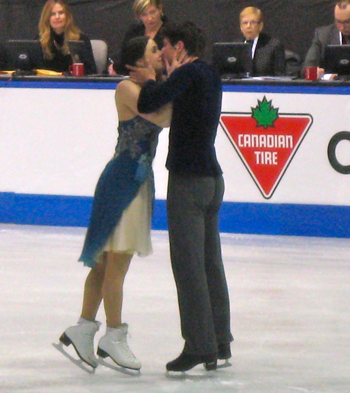 Canadian ice dancers Tessa Virtue and Scott Moir performing their short dance during the 2013 Canadian Figure Skating Championships at the Hershey Centre in Mississauga, Ontario - close-up